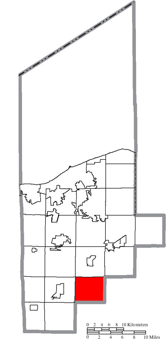 Map of the municipal and township boundaries of Lorain County, Ohio, United States, as of the 2000 census, with the location of Penfield Township highlighted. Township borders are shown only in unincorporated areas in order to differentiate incorporated and unincorporated areas more clearly.